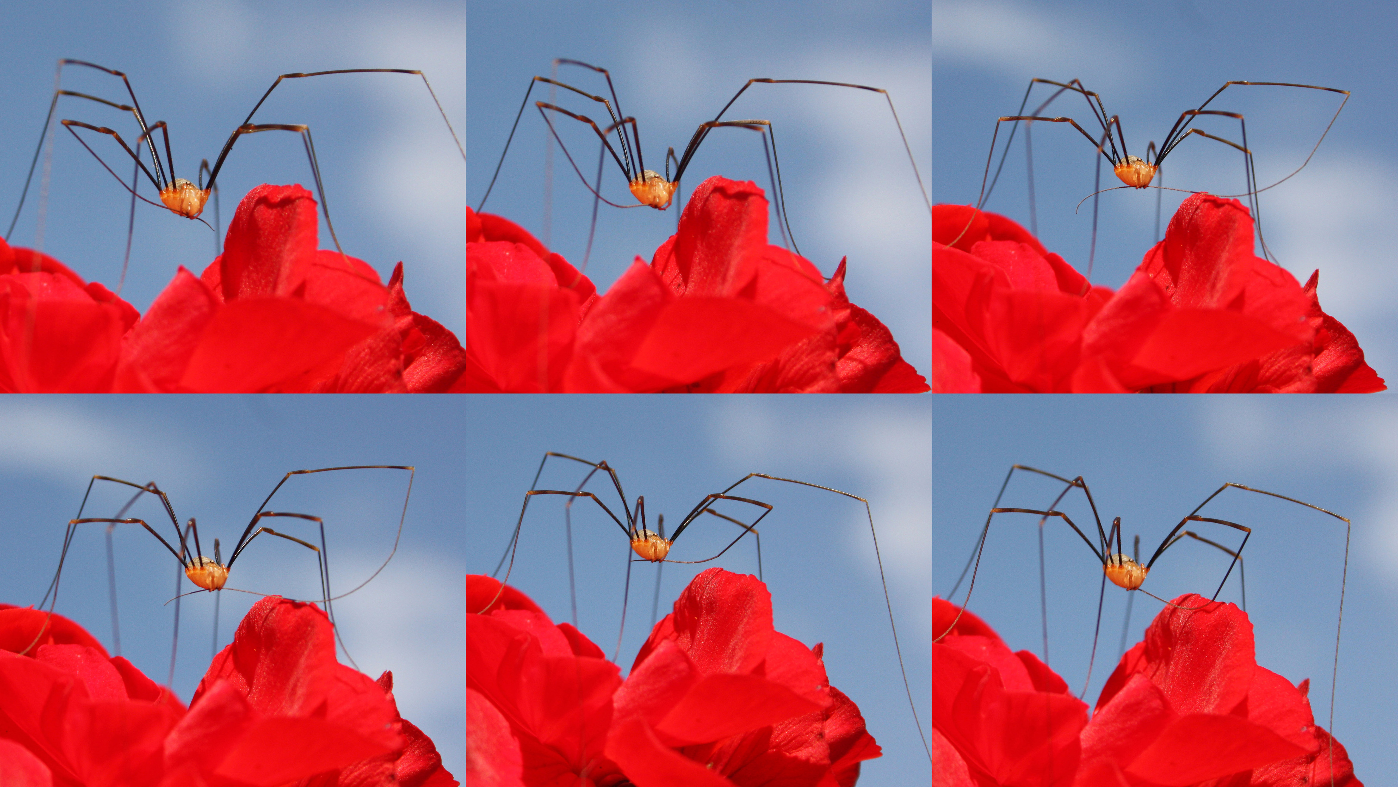 Male harvestman (Opilio canestrinii) on a geranium flower. He is cleaning his leg by drawing it through his jaws; Cumnor Hill, Oxfordshire